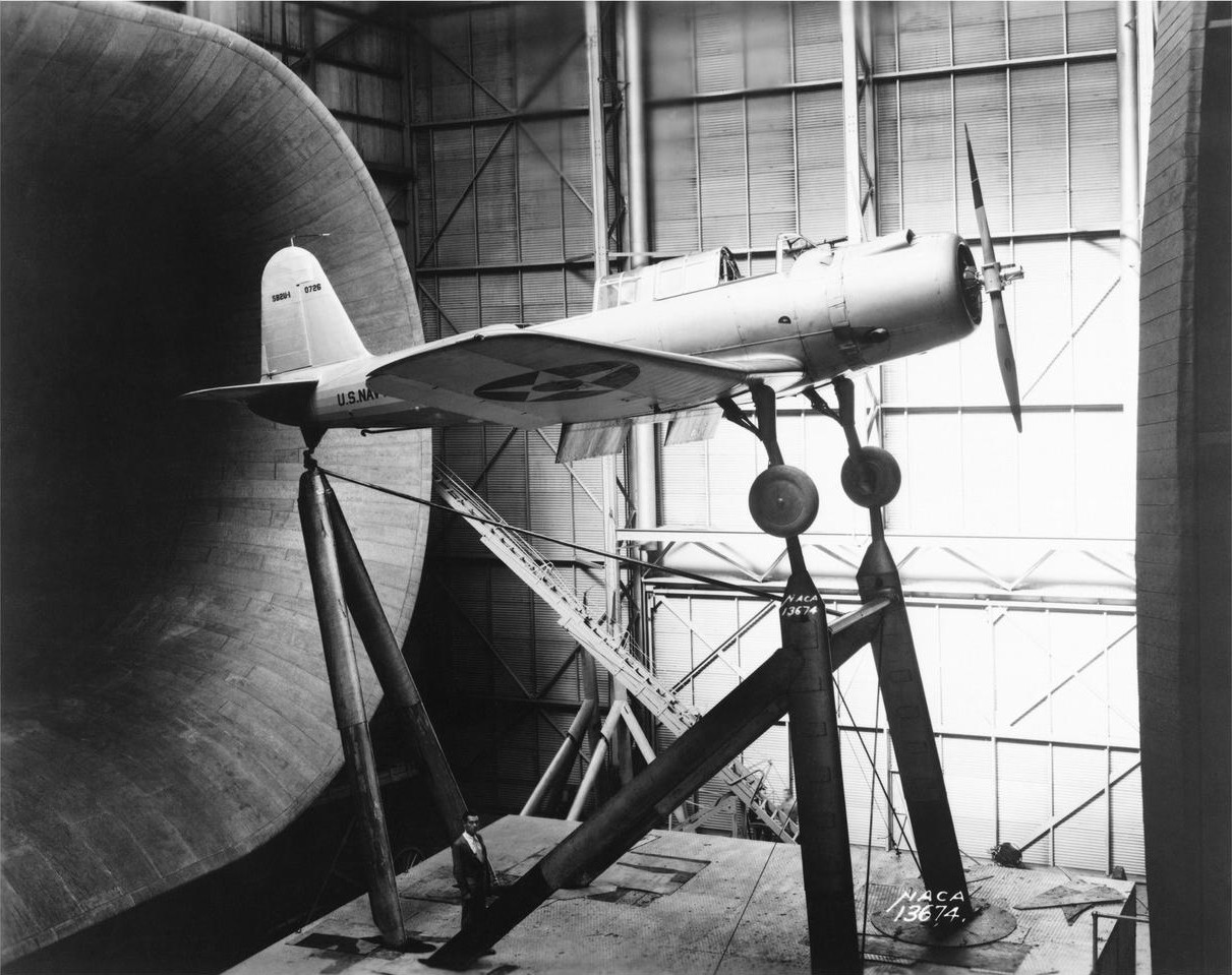 The first production Vought SB2U-1 Vindicator (BuNo 0726) being tested in the 30 x 60 (foot) full scale wind tunnel at the National Advisory Committee for Aeronautics (NACA), Langley Research Center, at Hampton, Virginia (USA), on 24 September 1937.